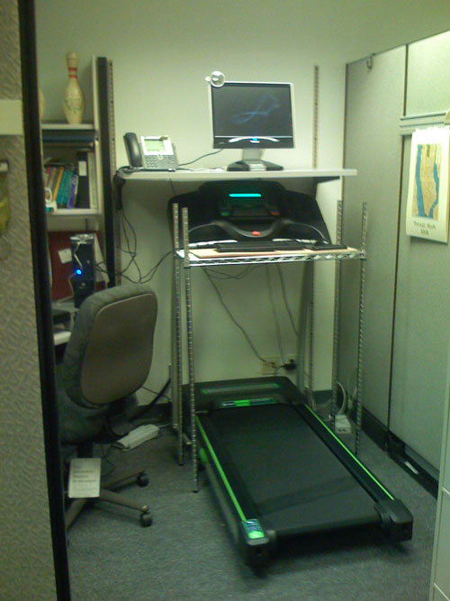 Completed desk upgrade to treadmill workstation in my office cubicle.